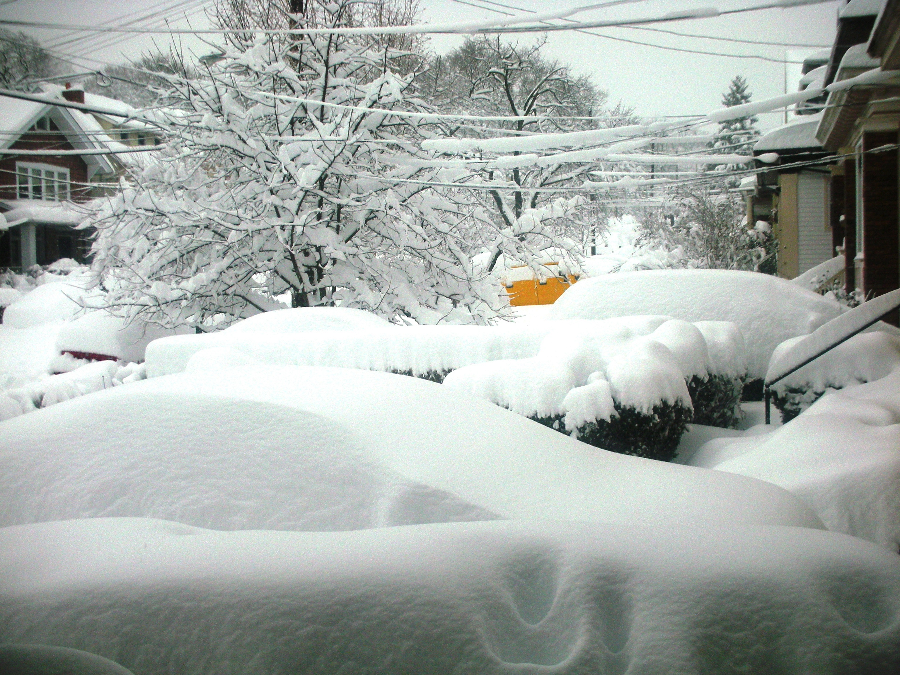 Snow in Pittsburgh during First North American blizzard of 2010